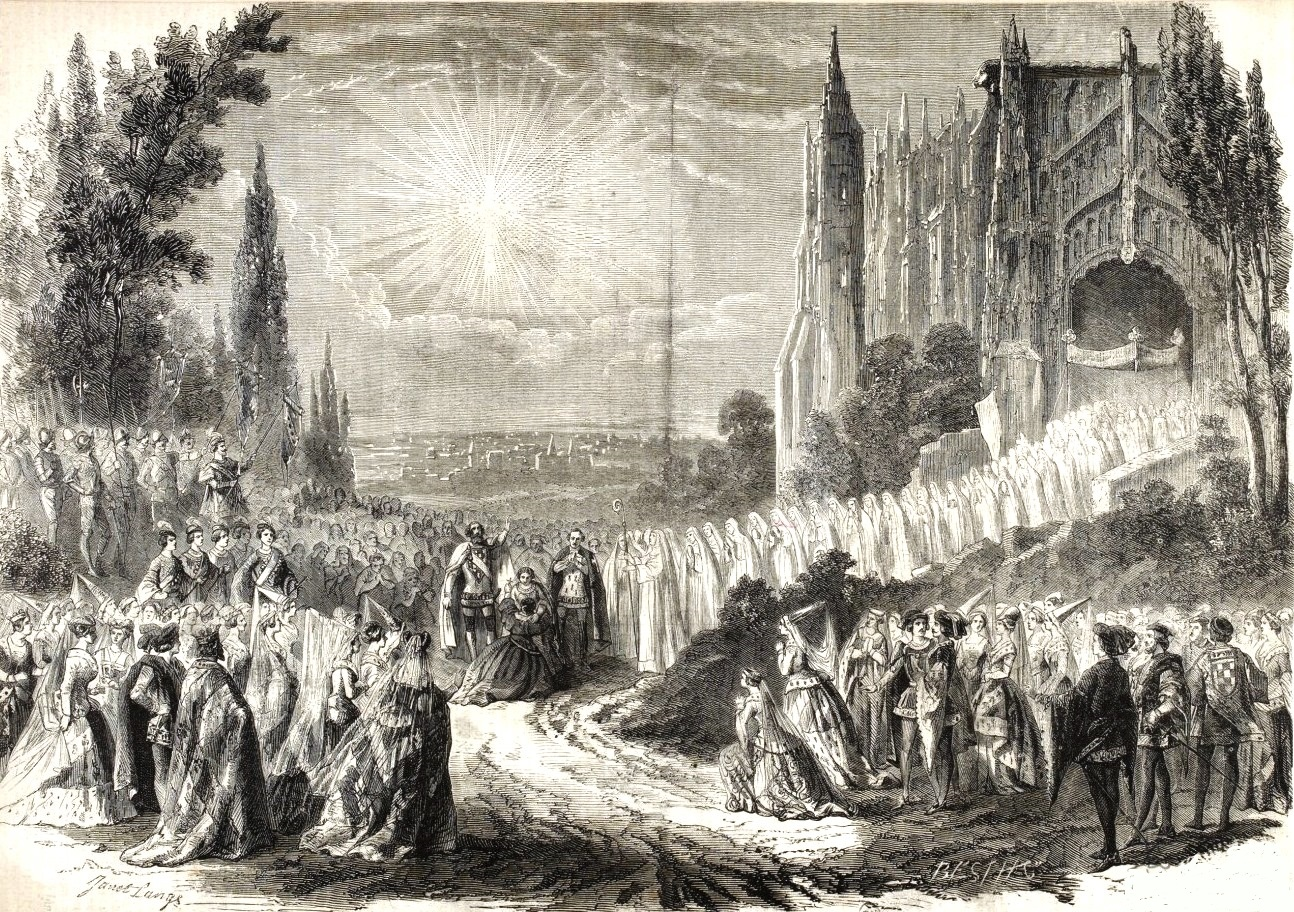 Press illustration of the stage setting for Act 5 of Fromental Halévy's opera La magicienne